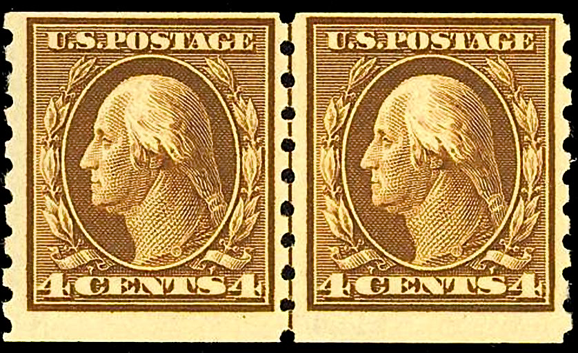 U.S. Postage stamp, George Washington 1912 issue, 4c